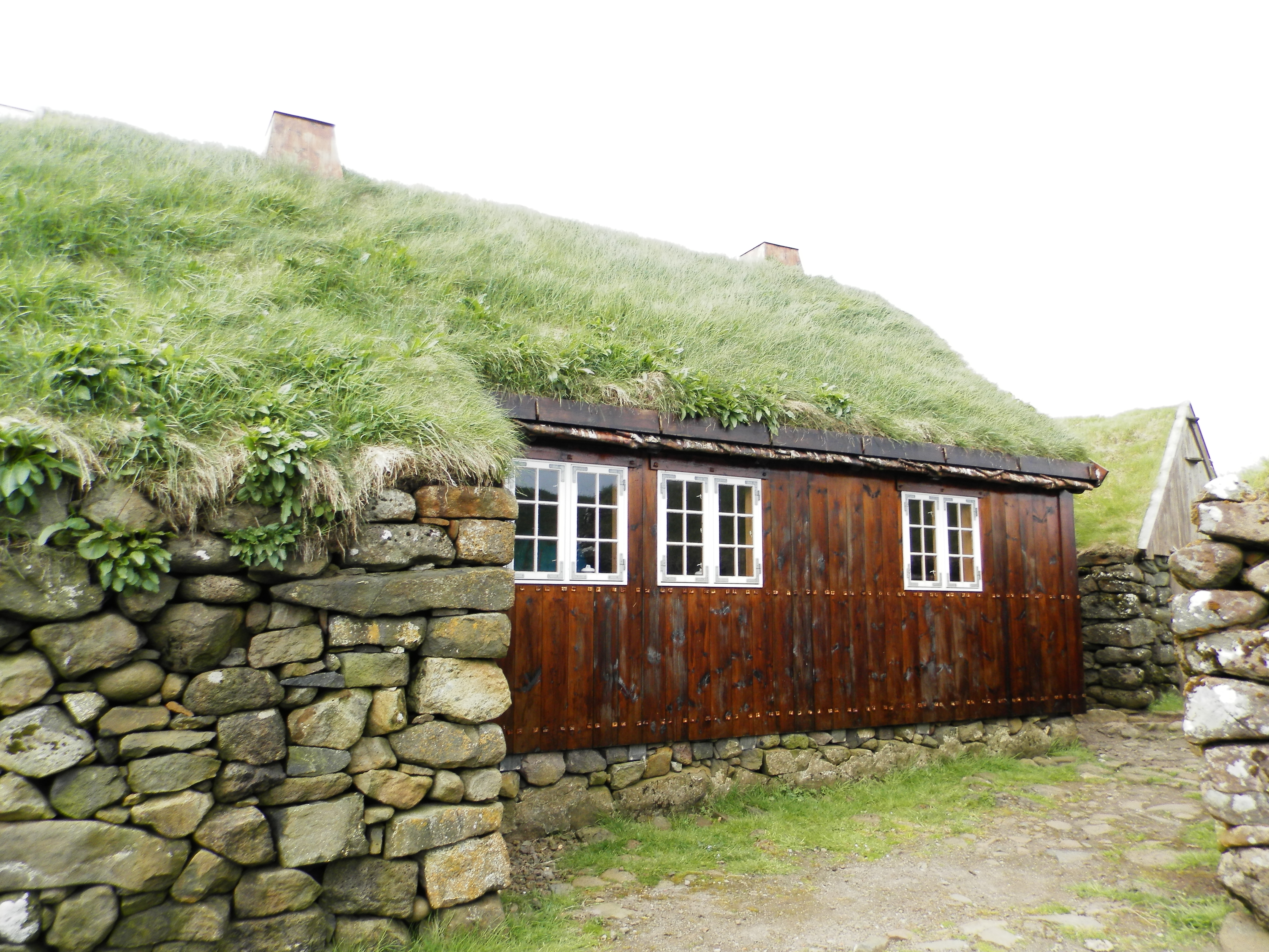 Koltur is one of the smallest islands of the Faroe Islands, the smallest of the inhabited islands. The population as of 2014 is 1 person. The island covers 2,31 km². The neighbourhood "Heimi í Húsi" is the oldest part of the island. The houses are not inhabited any longer, they have been renovated since 2009. The houses are made of stones and wood and have turf roof. Føroyskt: Koltur er ein oyggj og bygd í Føroyum. Í 2014 búði bert ein persónur í Koltri. Býlingurin Heimi í Húsi er blivin umvældur síðan 2009 til tað ið hann upprunaliga hevur verið.